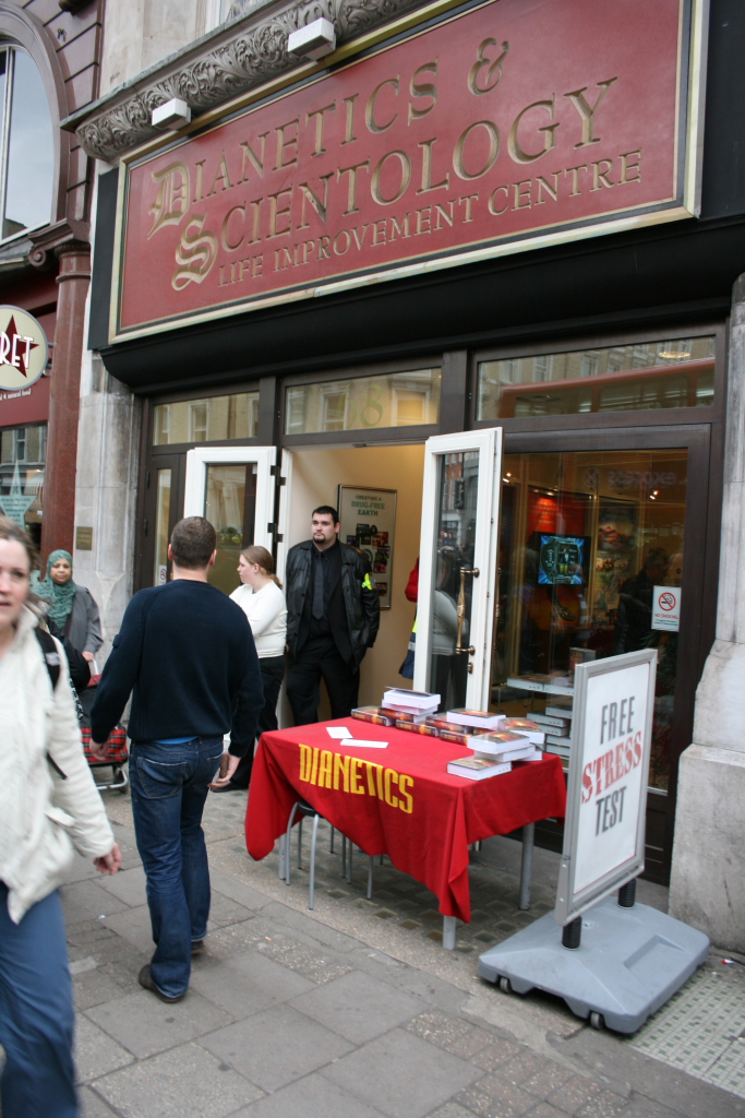 "Anonymous" anti-Scientology March 15, 2008 protest.